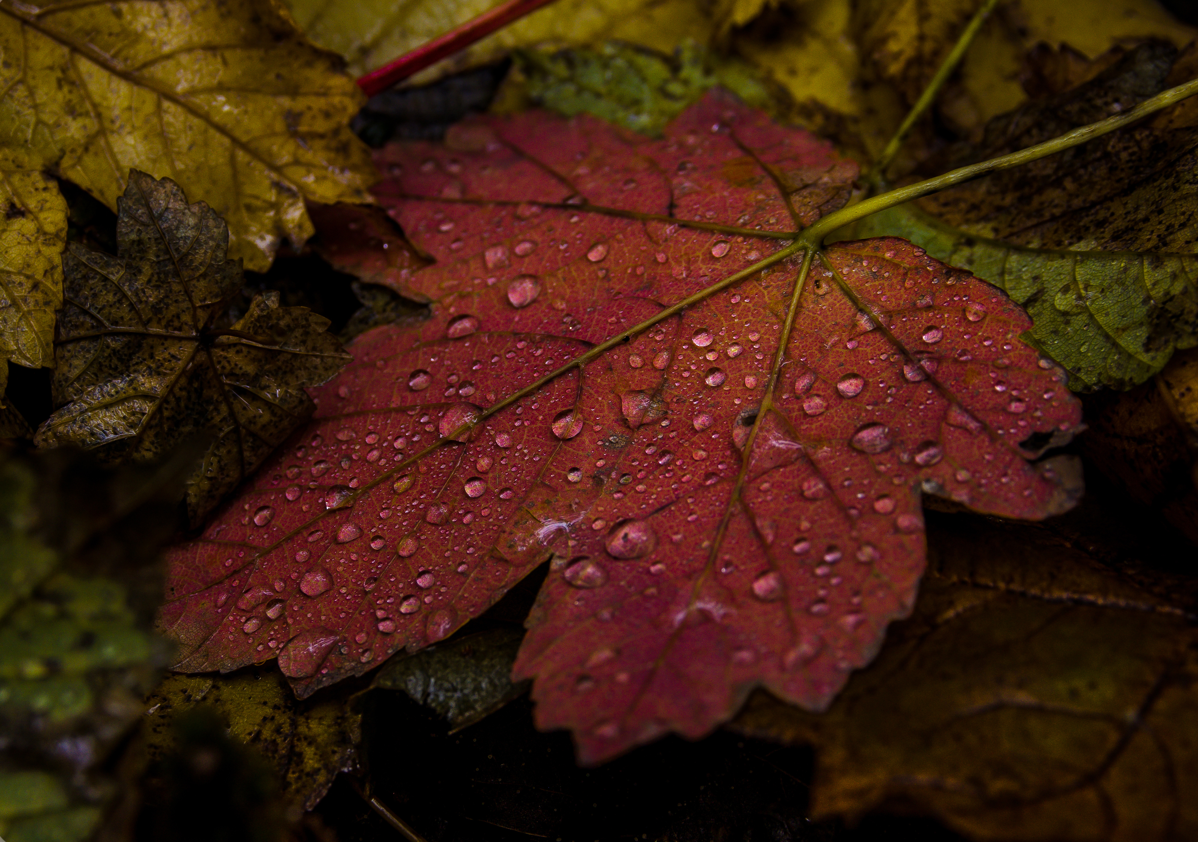 Mount Macedon, Victoria, Australia - 23rd of April, 2016